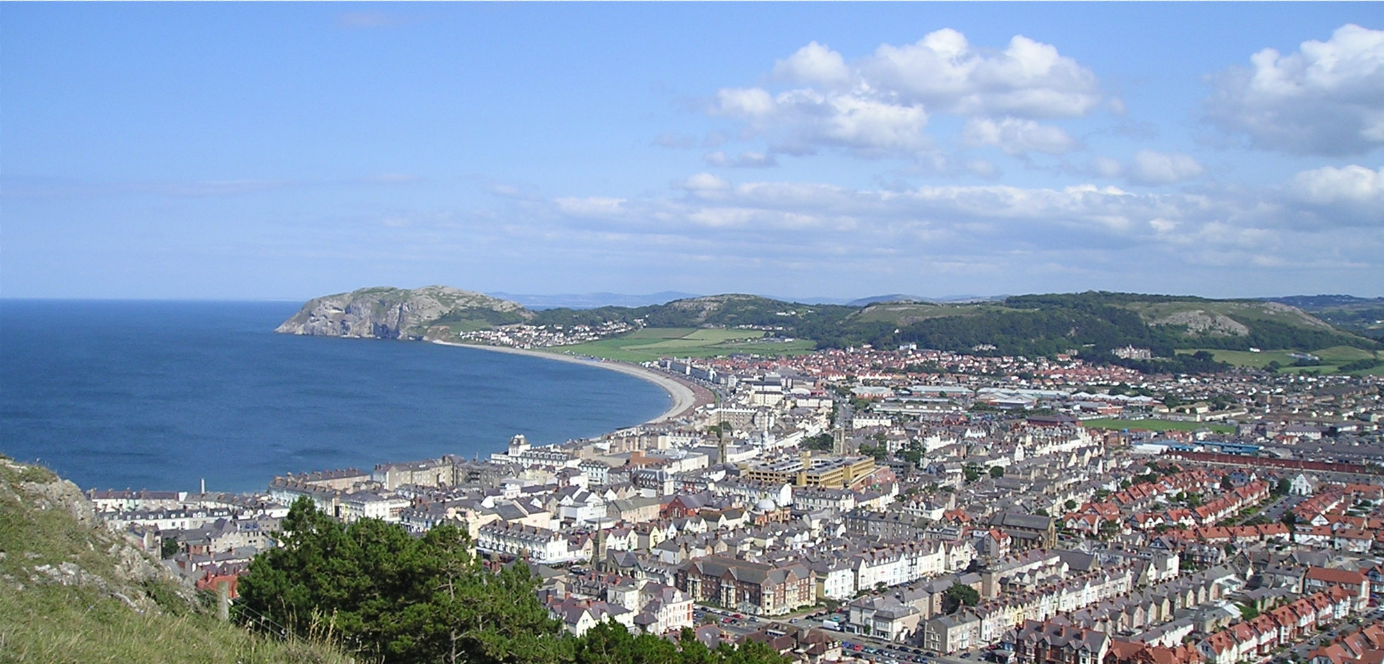 'Llandudno and the Little Orme' viewed from the slopes of the Great Orme.